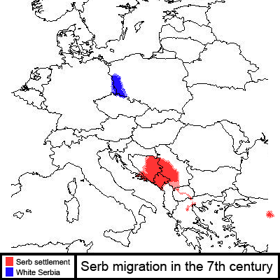 Migration of Serbs in the early 7th century.